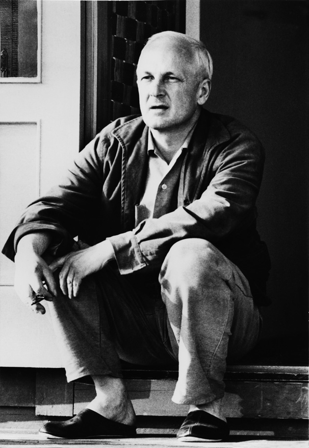 Photograph of the Finnish designer Kaj Franck (1911–1989).